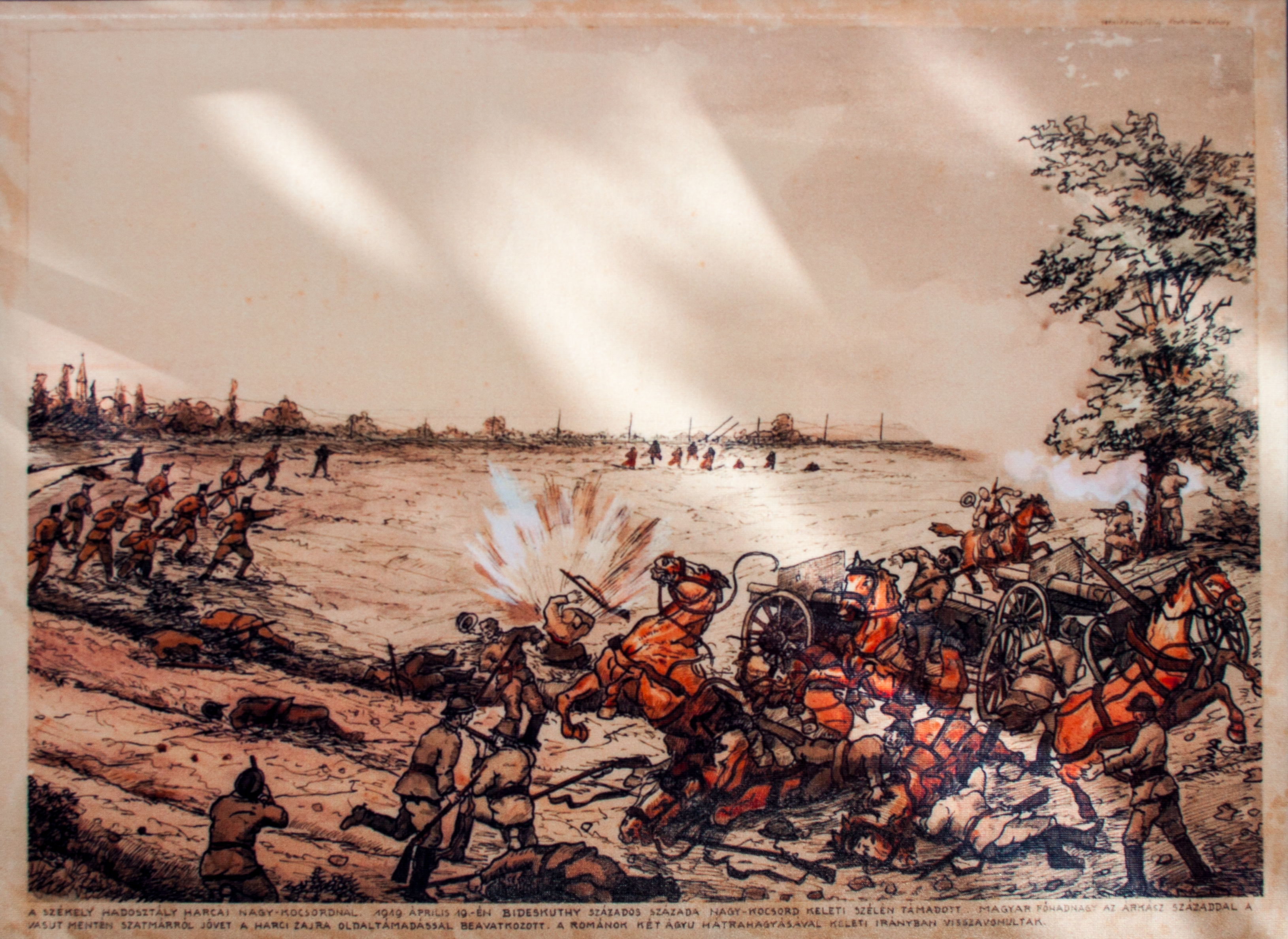 Drawing of Károly Kratochvil about the battle of the Székely Division at Kocsord